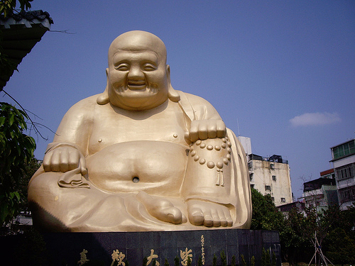 Smiling Buddha of the Bao Jue temple